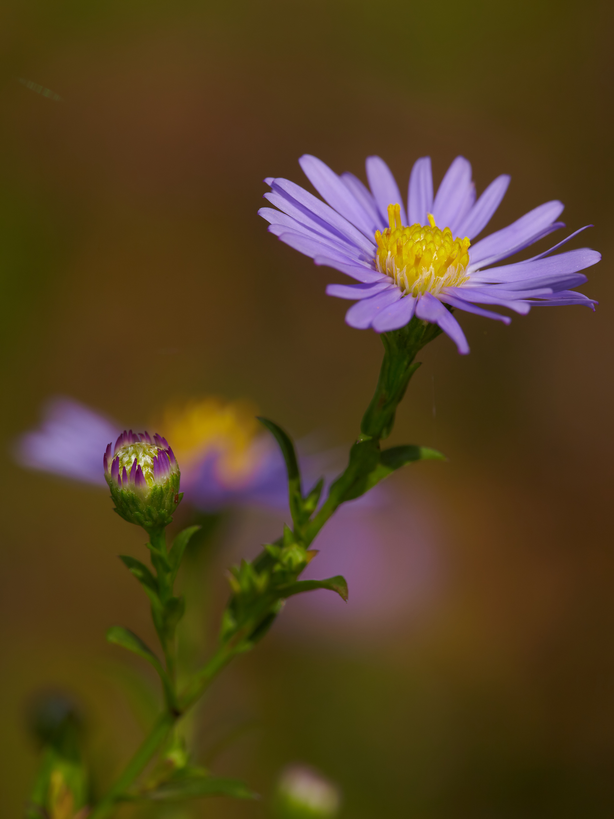 Symphyotrichum novi-belgii